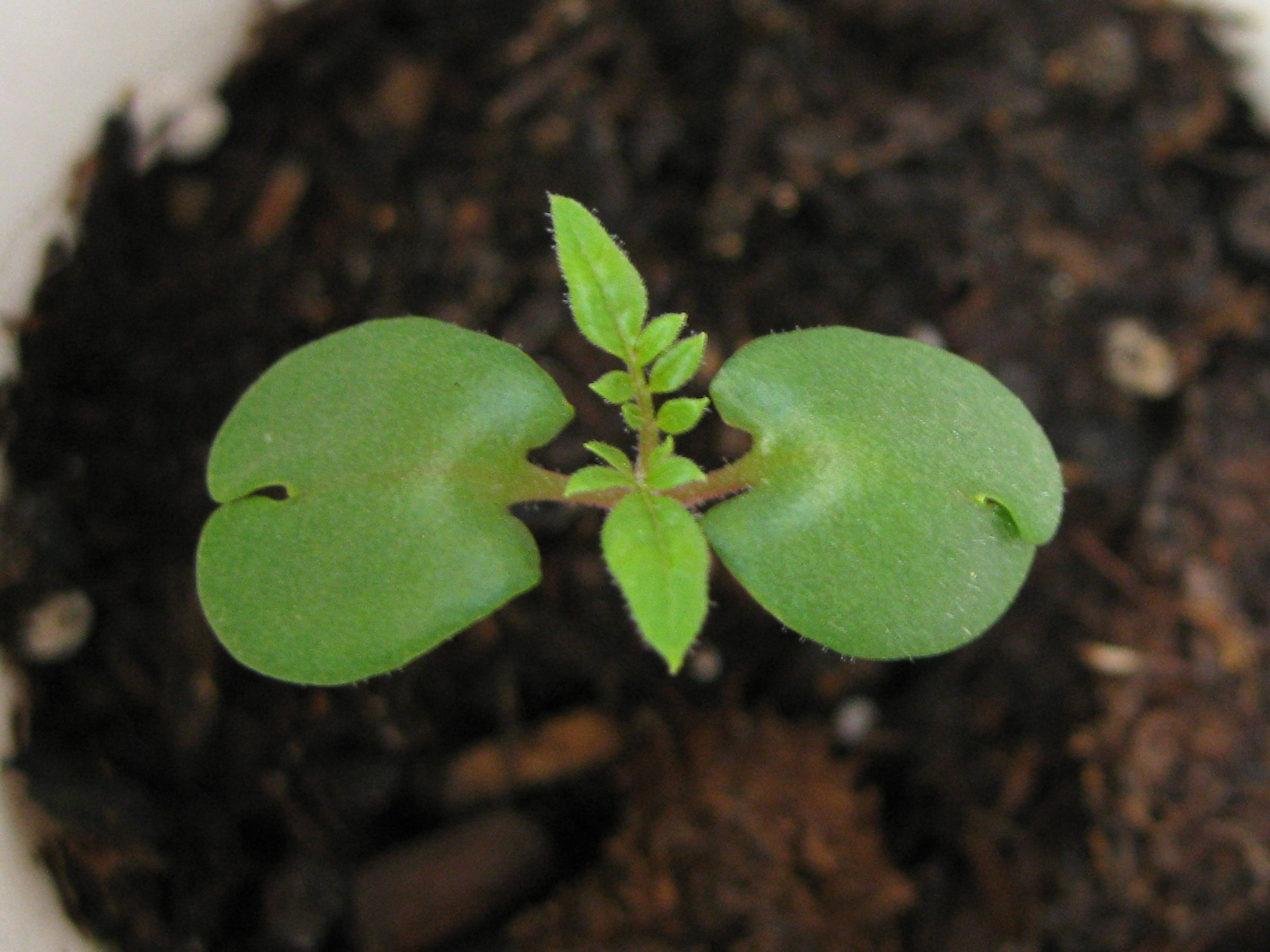 Jacaranda mimosifolia seedling.